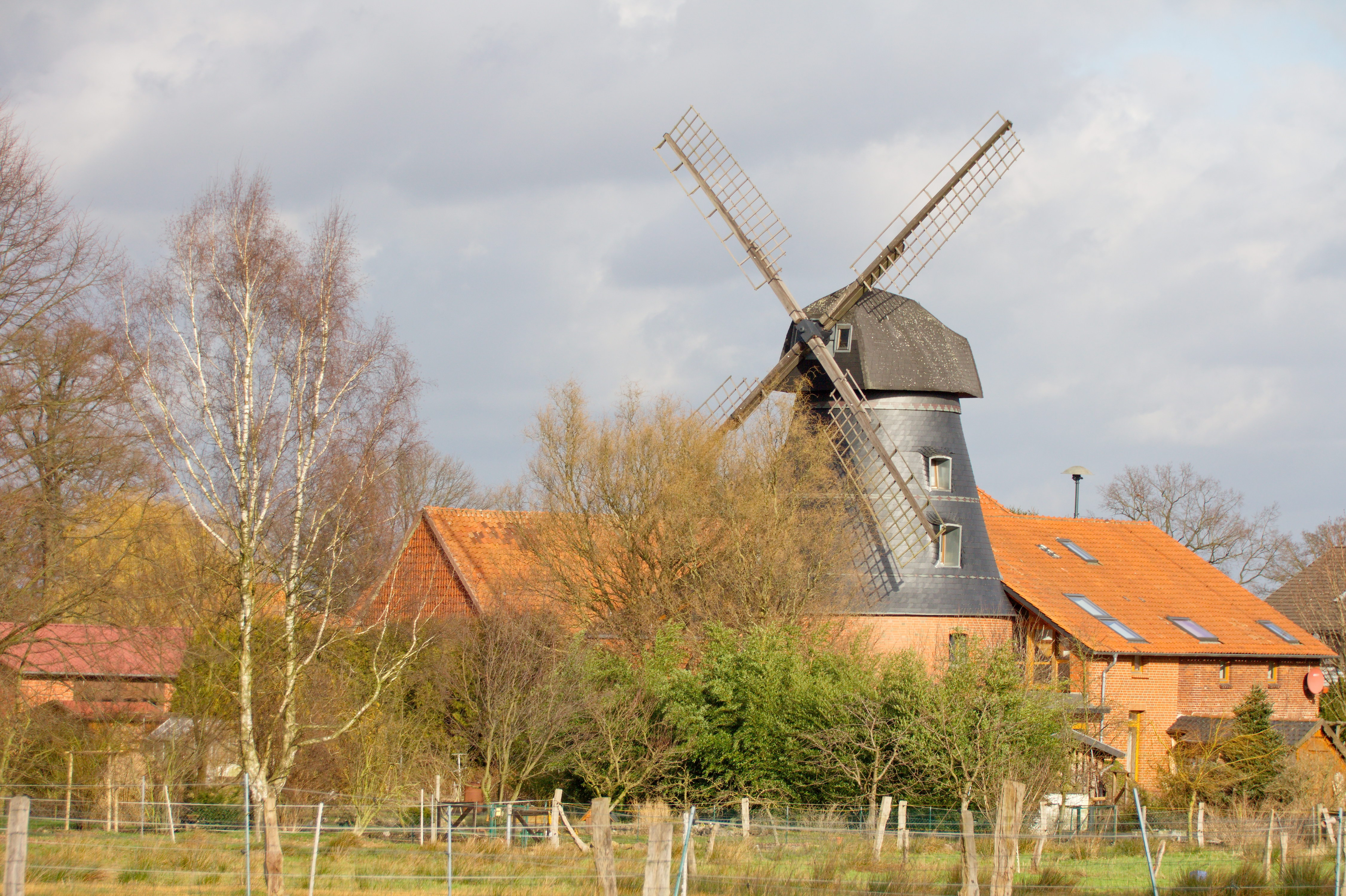 Loccumer Windmühle in Loccum (Rehburg-Loccum), Niedersachsen, Deutschland